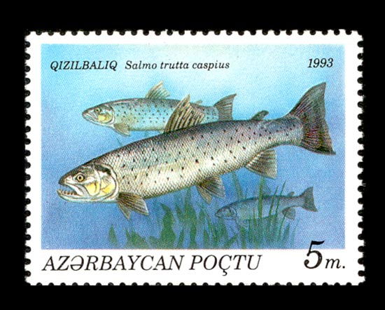 Stamp of Azerbaijan